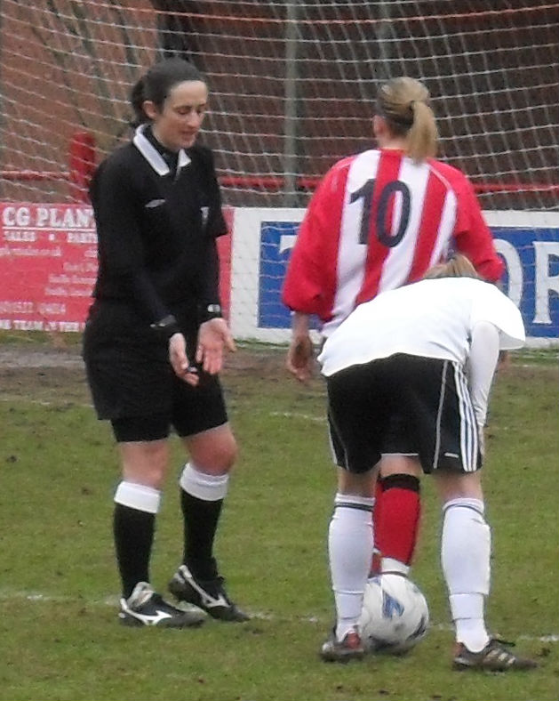 English football referee Amy Fearn awards a free kick to Derby County L.F.C. in their match at Lincoln Ladies F.C. in February 2010.